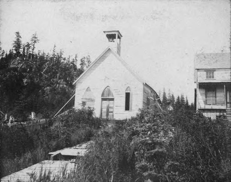 PH Coll 1568.10 Subjects (LCTGM): Churches--Alaska--Wrangell;; Wooden buildings--Alaska--Wrangell Subjects (LCSH): Church buildings--Alaska--Wrangell;; Wrangell (Alaska)--Buildings, structures, etc.